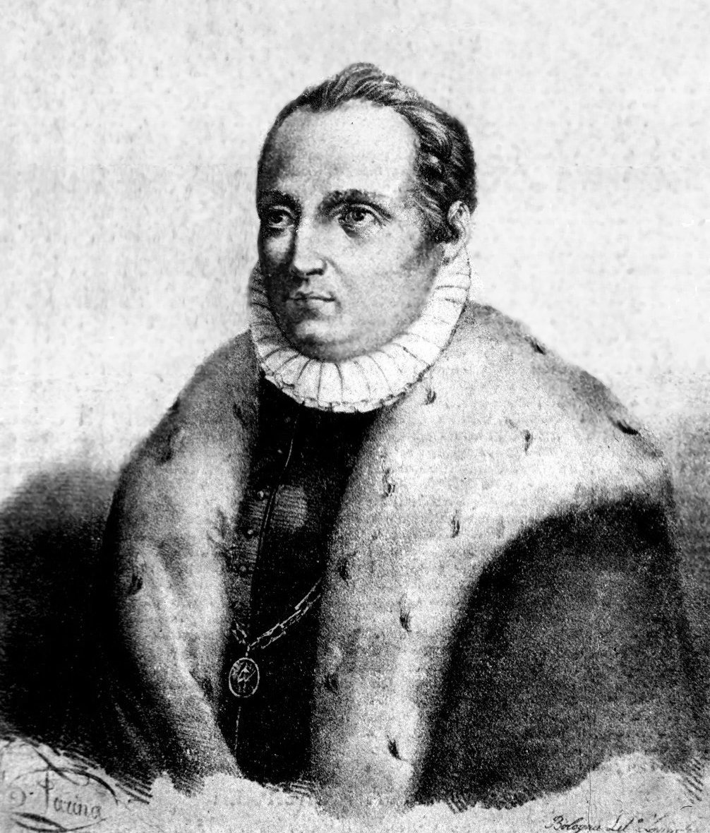 Antonio Musa Brassavola (1500-1555)